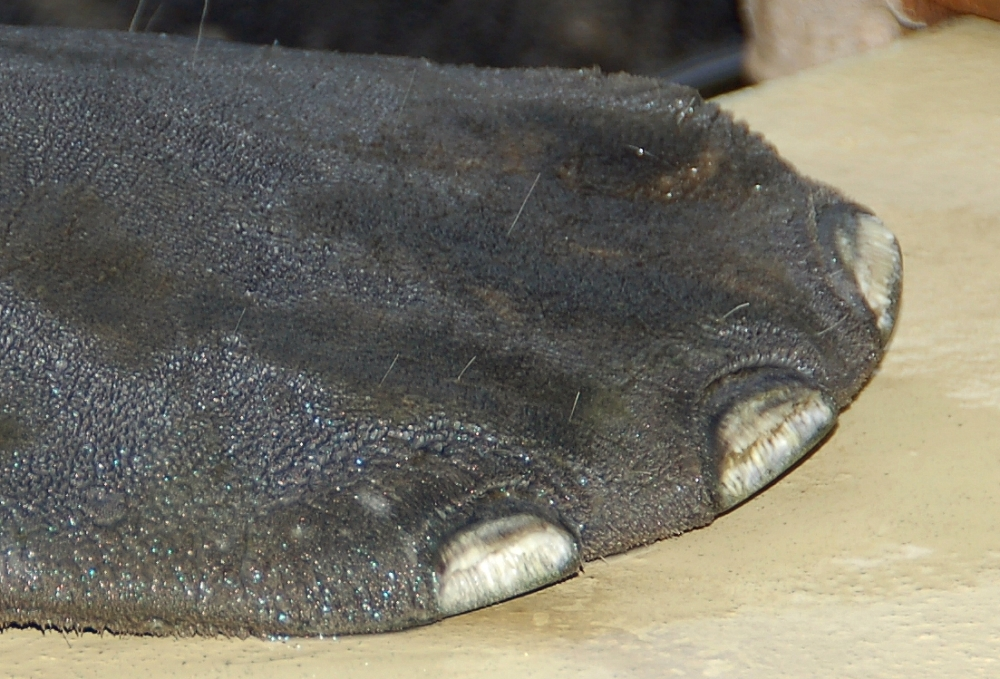 Trichechus manatus, Zoological Garden Berlin, Germany